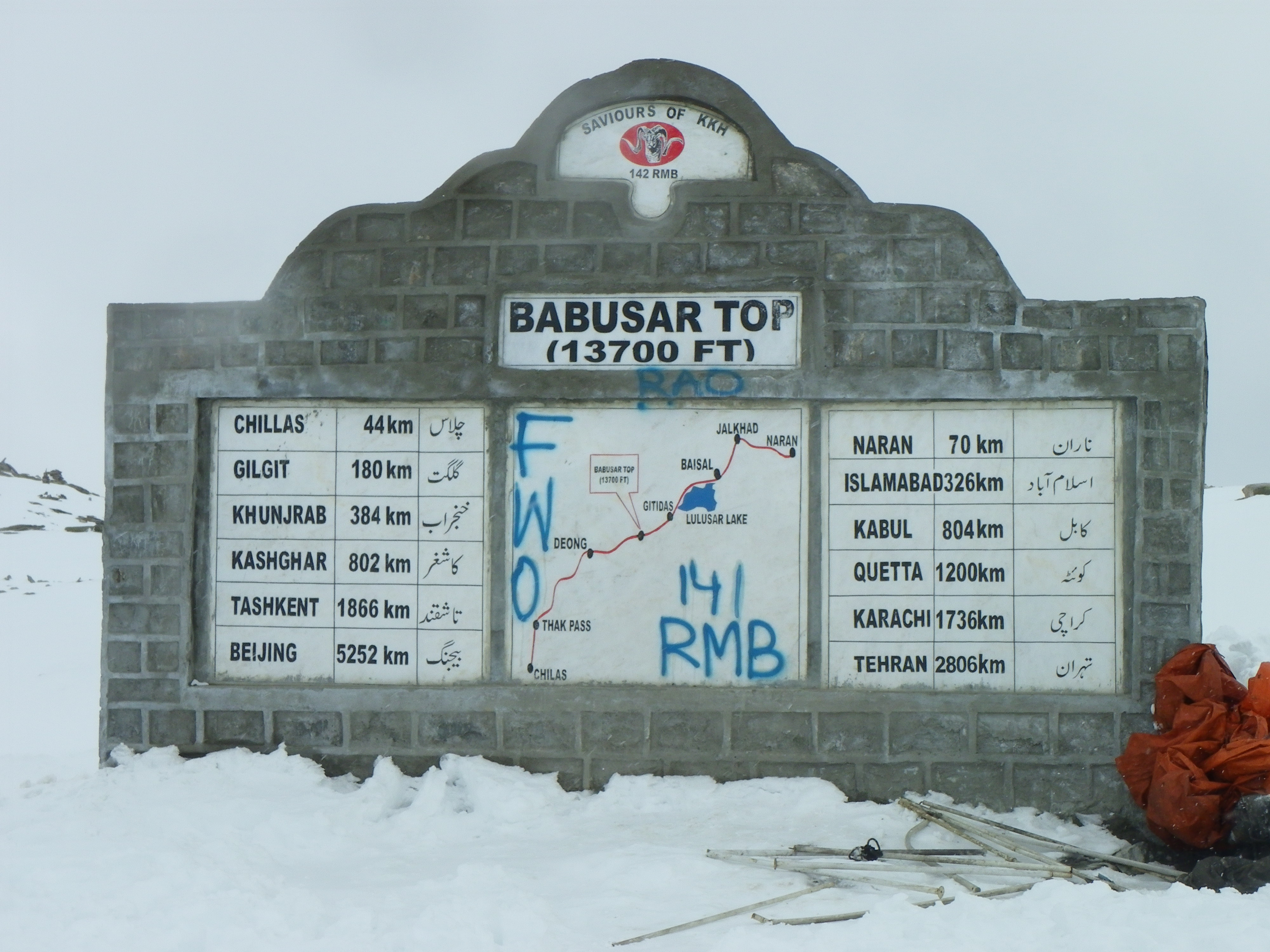 Babusar Top - Map & distances